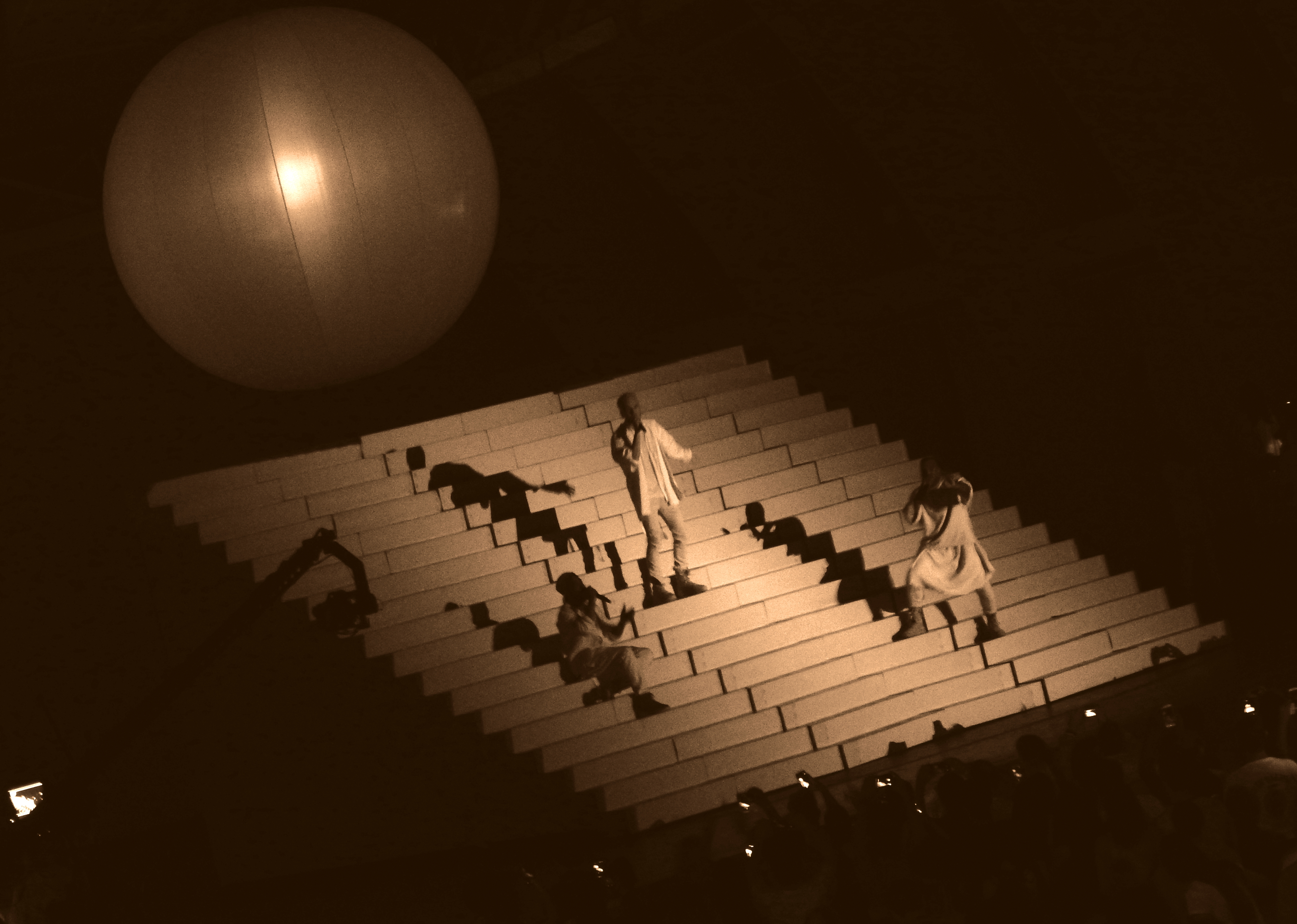 Kid Cudi, Mr Hudson and Kanye West performing "Paranoid" at the Hollywood Bowl on September 25, 2015.